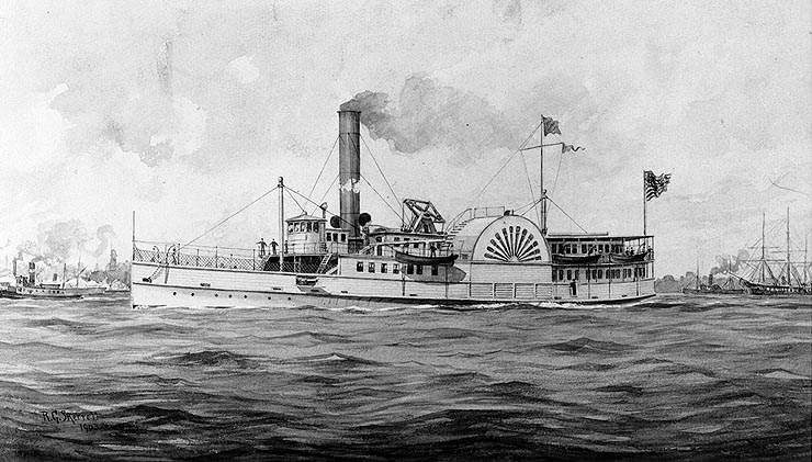 Removed caption read: Photo # NH 62690 USS Philadelphia. Artwork by R.G. Skerrett